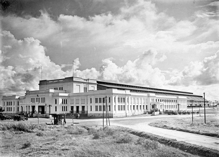 The railwaystation of the State Railway Company in Tandjong Priok, Java